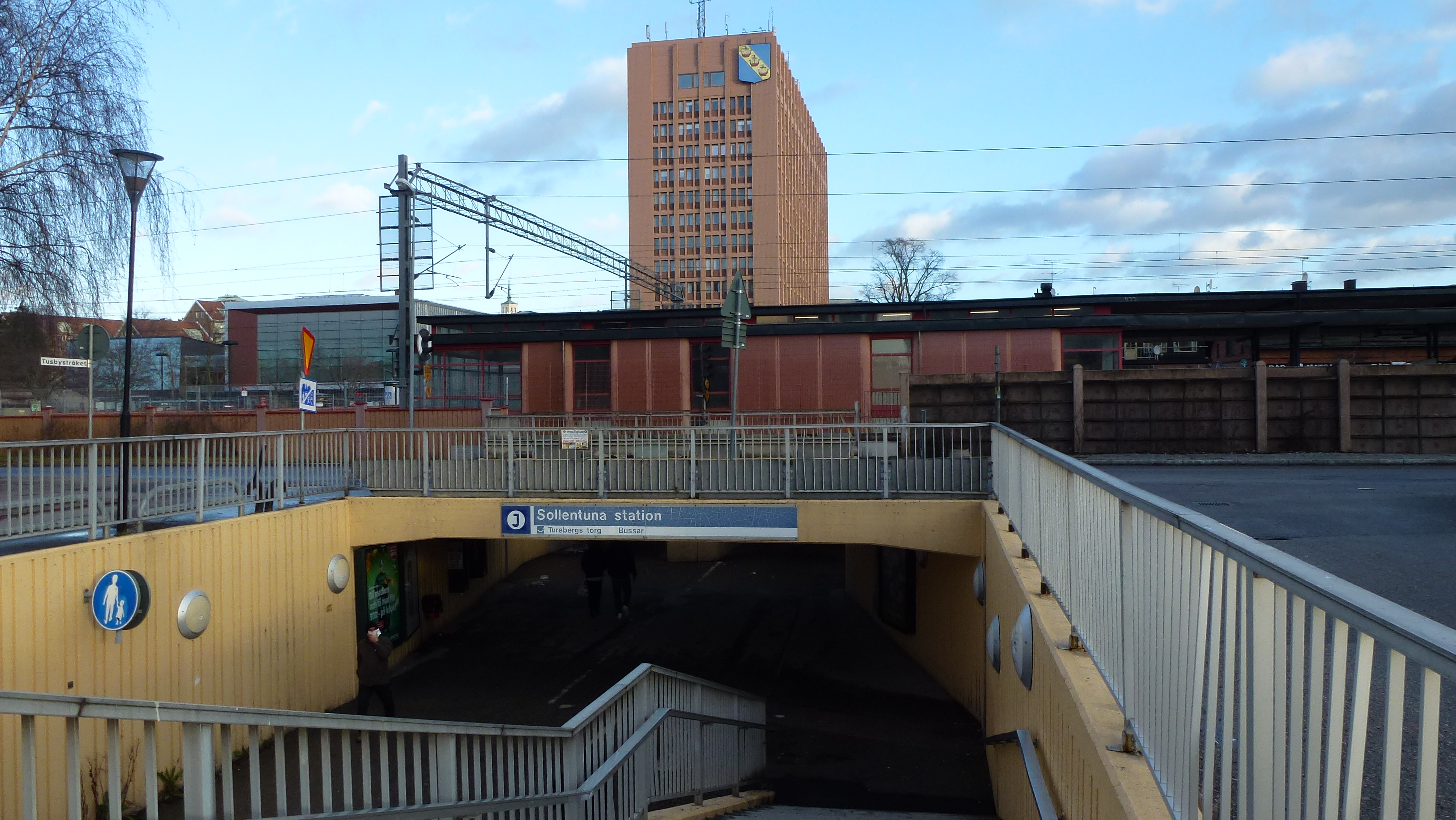 Commuter train station at Sollentuna